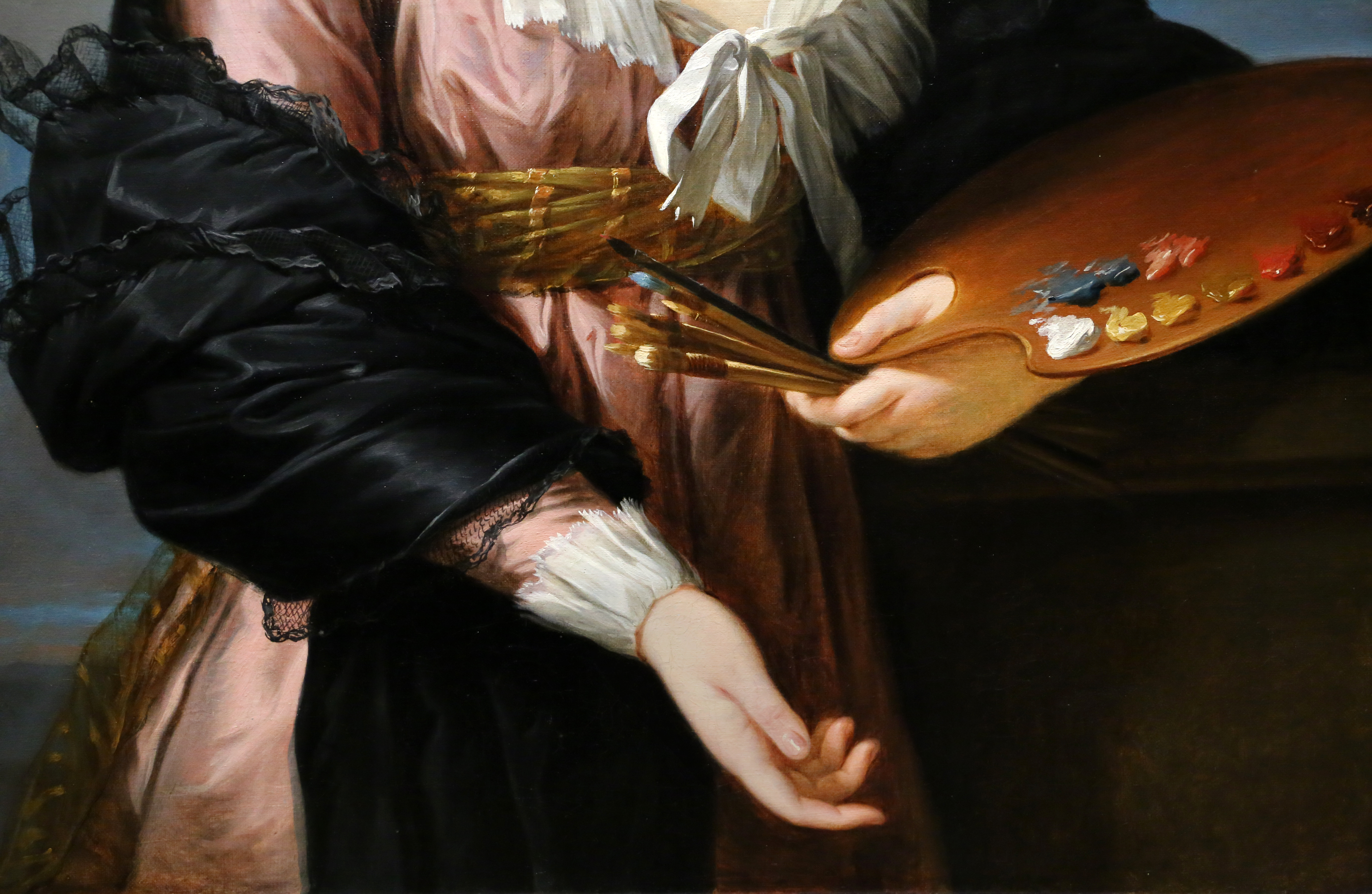 French paintings in the National Gallery, London